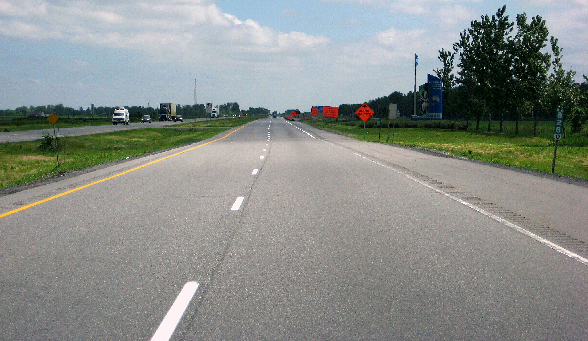 The unceremonious end of Highway 401 at km 828, facing east into Quebec